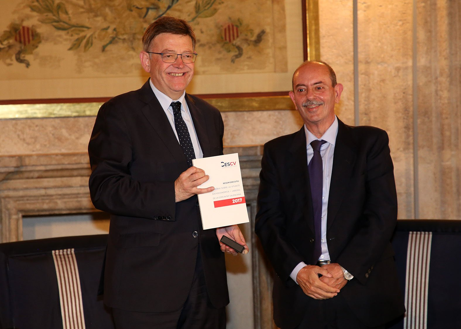 Carlos Alfonso